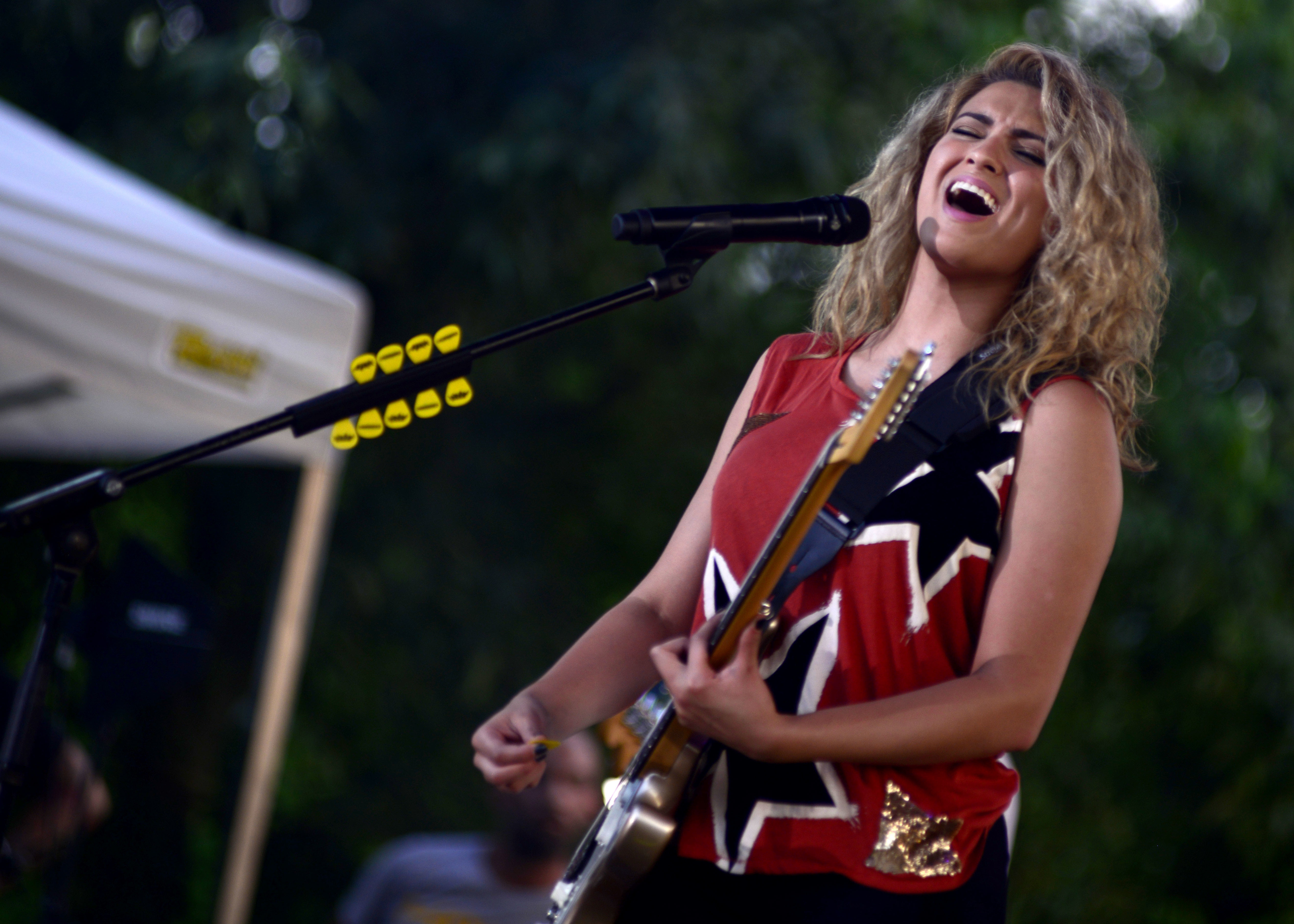 Tori Kelly performs during an Independence Day celebration, July 2, 2016, at Aviano Air Base, Italy. The celebration included live music, bounce houses, face paintings, food booths and more. (U.S. Air Force photo by Senior Airman Areca T. Bell/Released) Unit: 31st Fighter Wing Public Affairs